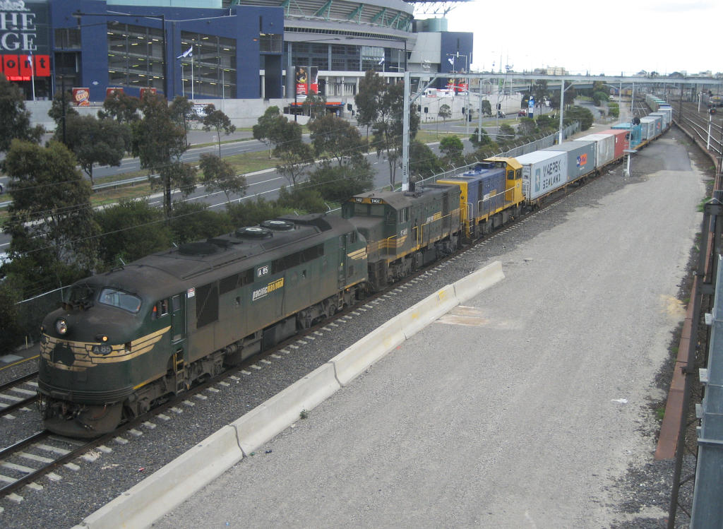 The Maryvale paper train bound for Gippsland, at Southern Cross Station, Melbourne